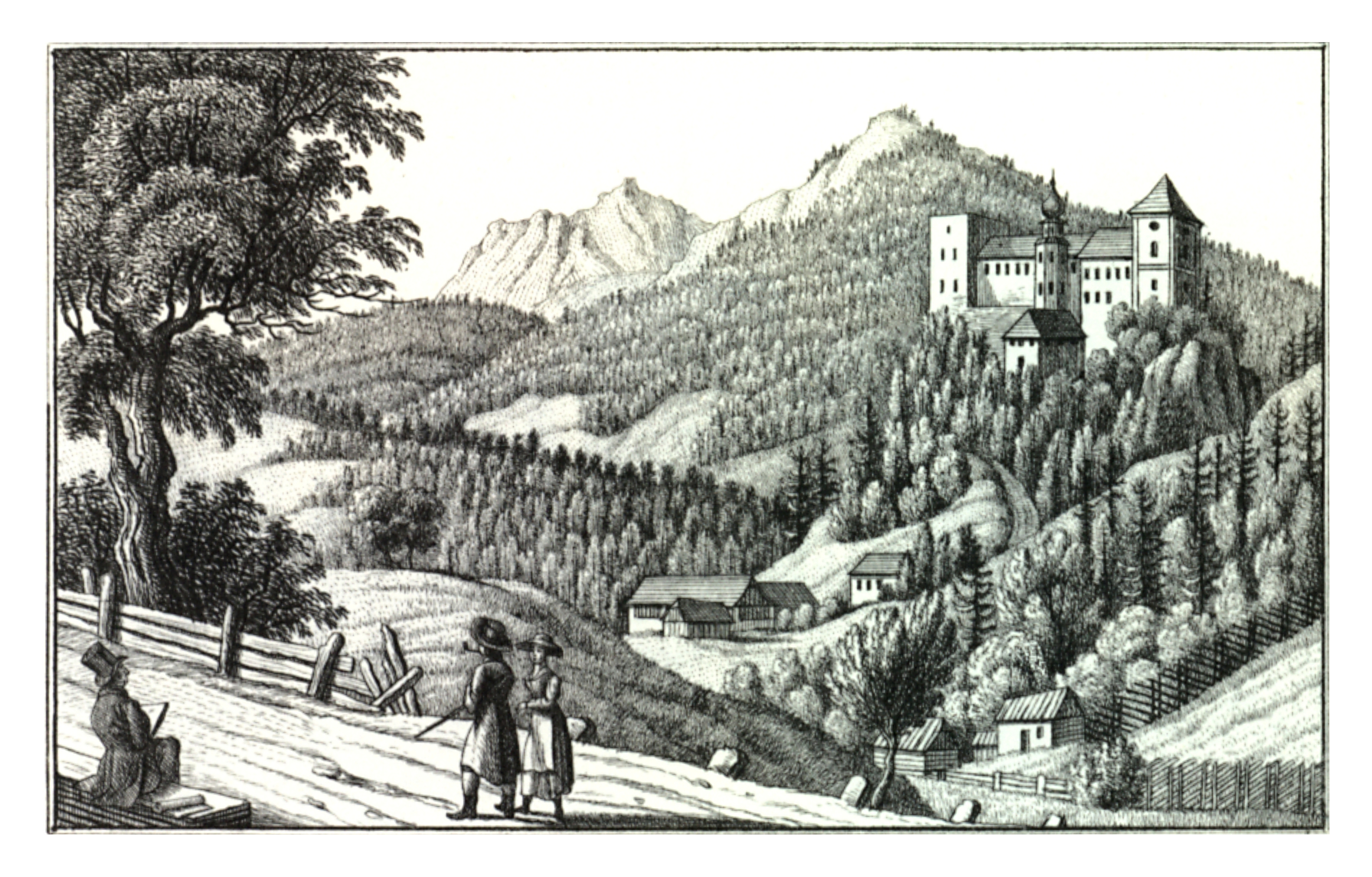 J. F. Kaiser - lithographirte Ansichten der Steyermärkischen Städte, Märkte und Schlösser Graz, 1825 Joseph Franz Kaiser (1786–1859) Alternative names J. F. KaiserDescriptionAustrian printer and editorDate of birth/death 11 March 1786 19 September 1859Location of birth/death Graz (Styria) GrazAuthority control : Q1499963 VIAF: 30629353 ISNI: 0000 0000 3083 0153 LCCN: n87141671 GND: 129880159 NLP: A24960305 WorldCat creator QS:P170,Q1499963 Scanprojekt Community Projektbudget 2012 This scan or this PDF-file was created within the GLAM-project Bookscanning, supported by Wikimedia Germany and Wikimedia Austria as a part of the community-project to capture books, documents and pictures which are not eligible to copyright or for which the copyright has expired. This document describes or depicts an object which is located in Austria today. Send requests for uncompressed scans to Hubertl. This work is in the public domain in its country of origin and other countries and areas where the copyright term is the author's life plus 100 years or fewer. You must also include a United States public domain tag to indicate why this work is in the public domain in the United States. This file has been identified as being free of known restrictions under copyright law, including all related and neighboring rights.